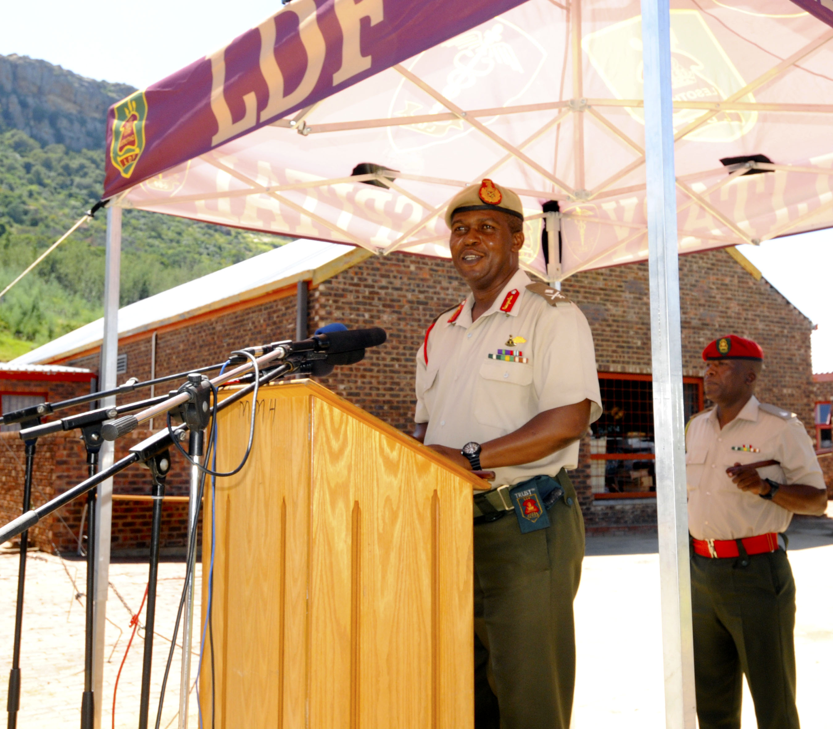 Lesotho Defence Force Deputy Commander Maj. Gen. Motsomotso addresses the audience during Distinguished Visitor Day during U.S. Army Africa cooridinated Medical Readiness Exercise 14-1, Feb. 3 - 14 in Maseru, Lesotho. USARAF coordinated a U.S. Army medical team of personnel from U.S. Army Forces Command, Medical Command, U.S. Army Reserve Medical Command and 7th Civil Support Command to train U.S. forces to operate in an austere environment, share training, tactics and procedures with Lesotho Military medical personnel. (U.S. Army Africa photo by Maj. Kimbia Rey)